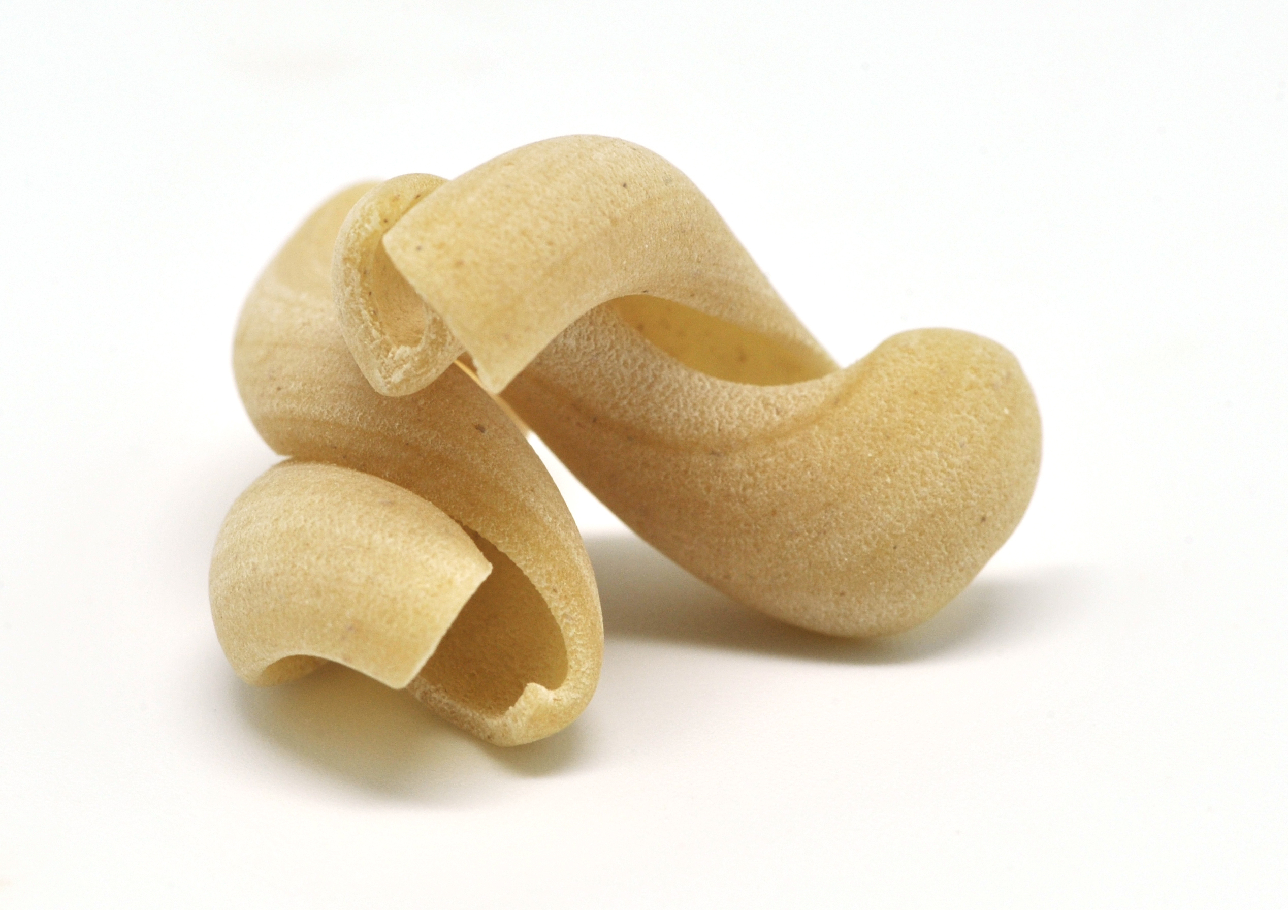 Strozzapretti, a type of Italian pasta.